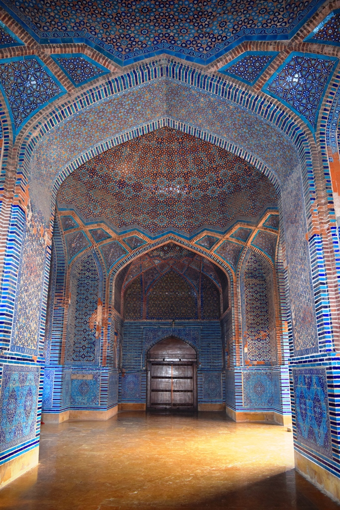 Shah Jahan Mosque, Thatta This is a photo of a monument in Pakistan identified as the SD-90